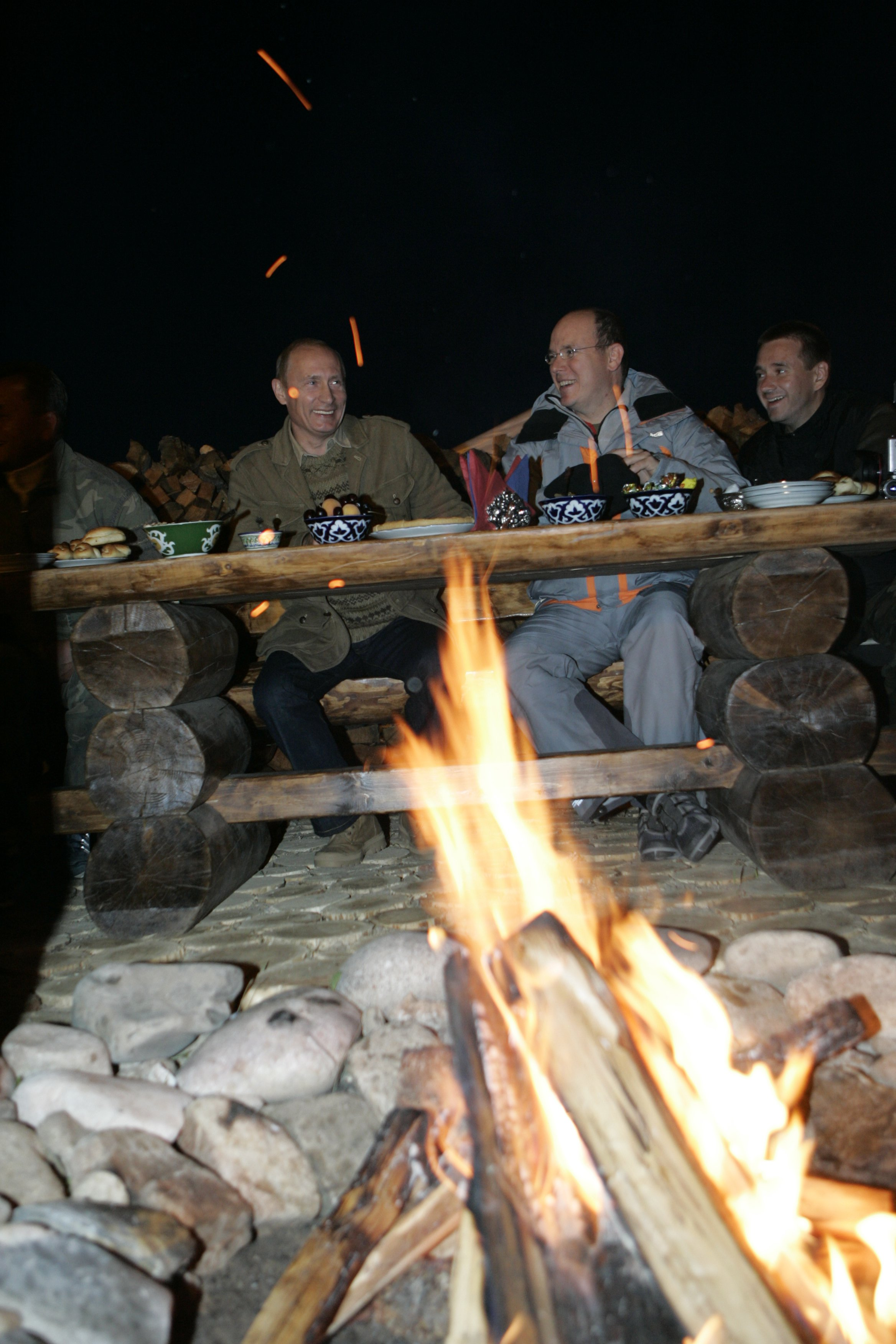 TUVA. At the concert performed by musical ensembles from the Republic of Tuva.